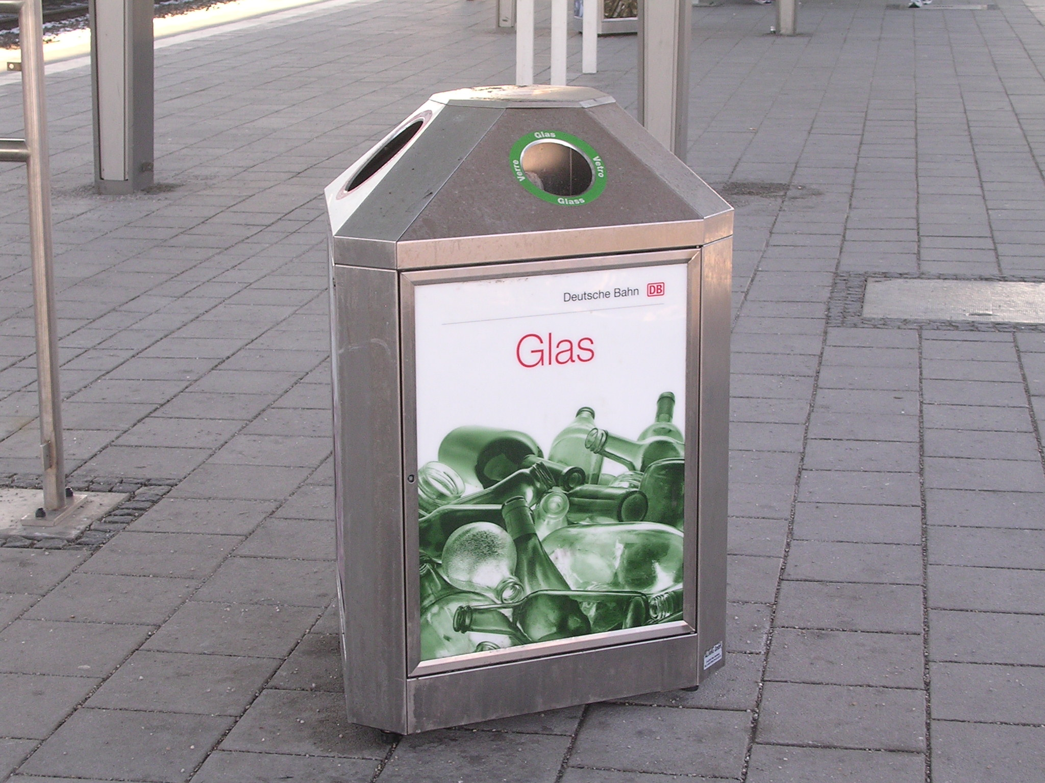 trash bin on train station “München Ostbahnhof”